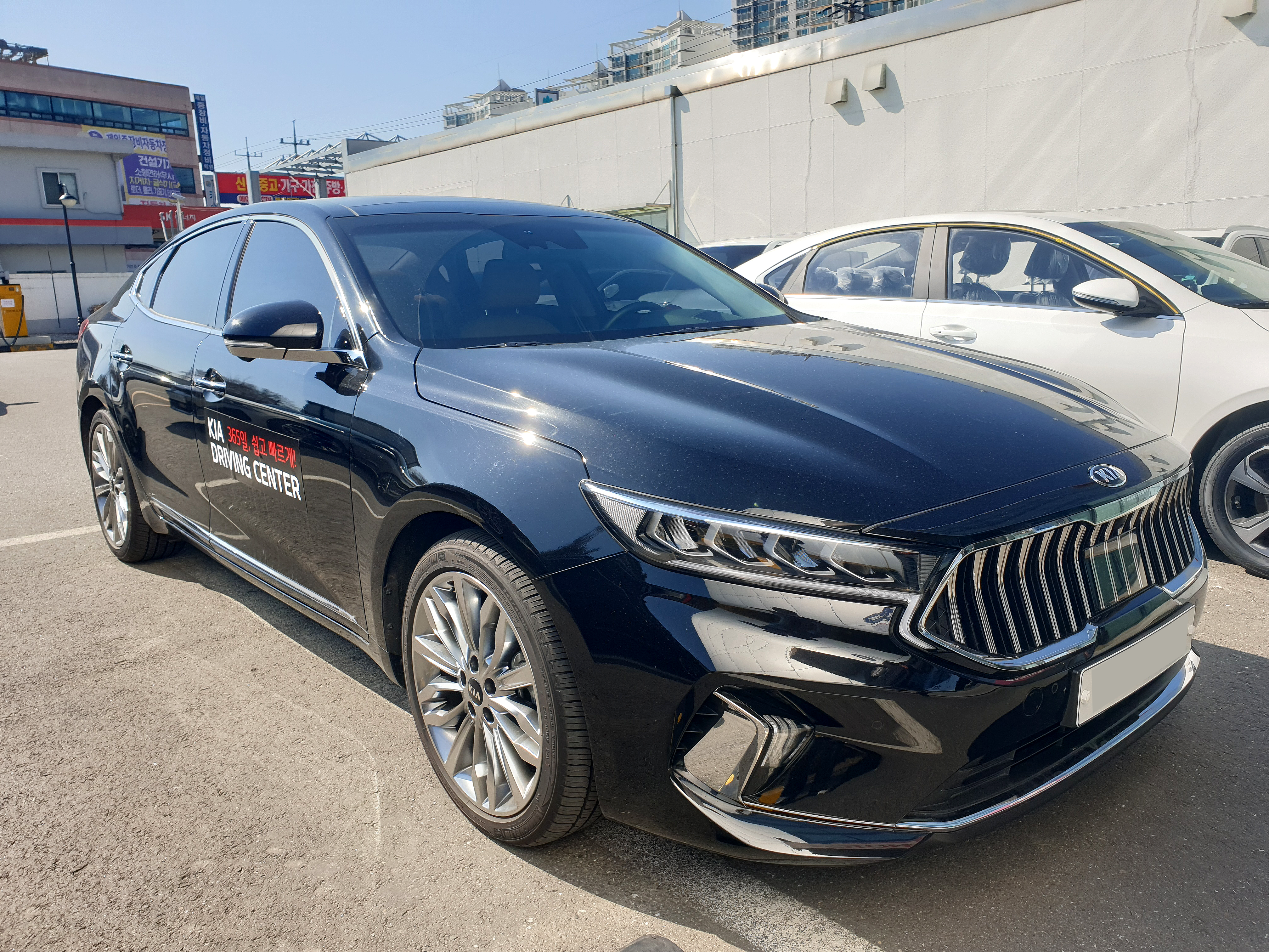 KIA K7 Premier Front Side